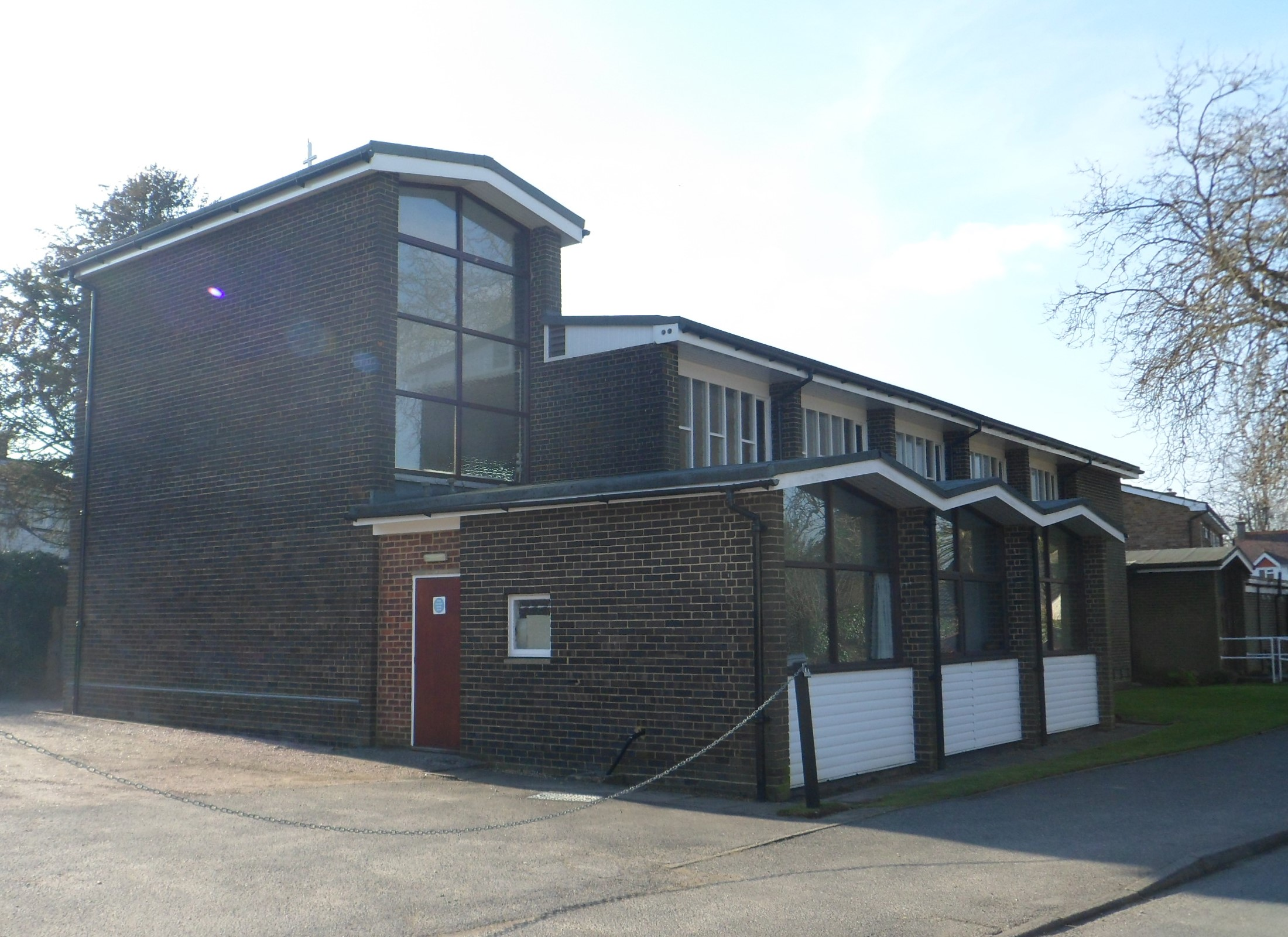 St Ambrose's Church, Warren Park, Warlingham, Tandridge District, Surrey, England.